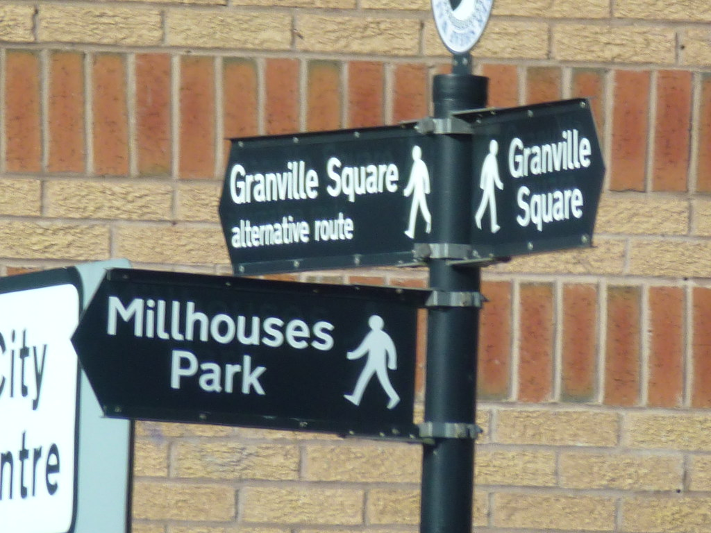 River Sheaf Walk SIgns